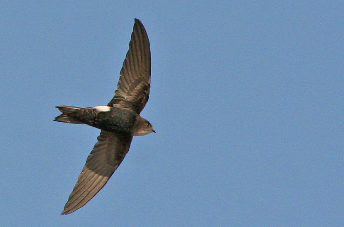 Horus Swift (Apus horus) in South Luangwa National Park, Zambia